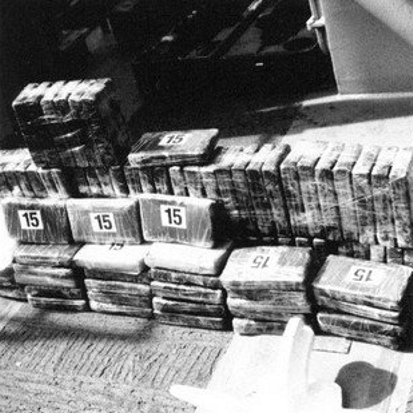 Confiscated drugs aboard the U.S. Navy guided missile frigate USS Sides (FFG-14), in 1996.